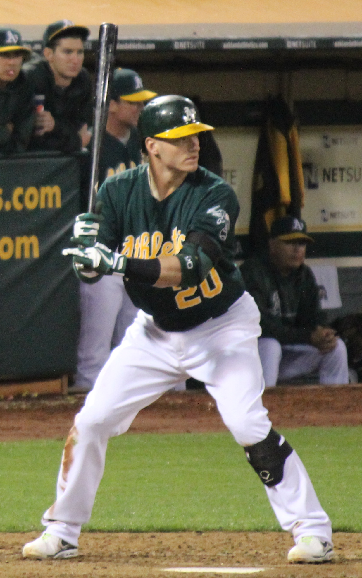 Photo of Josh Donaldson, 2013-06-25, Oakland CA